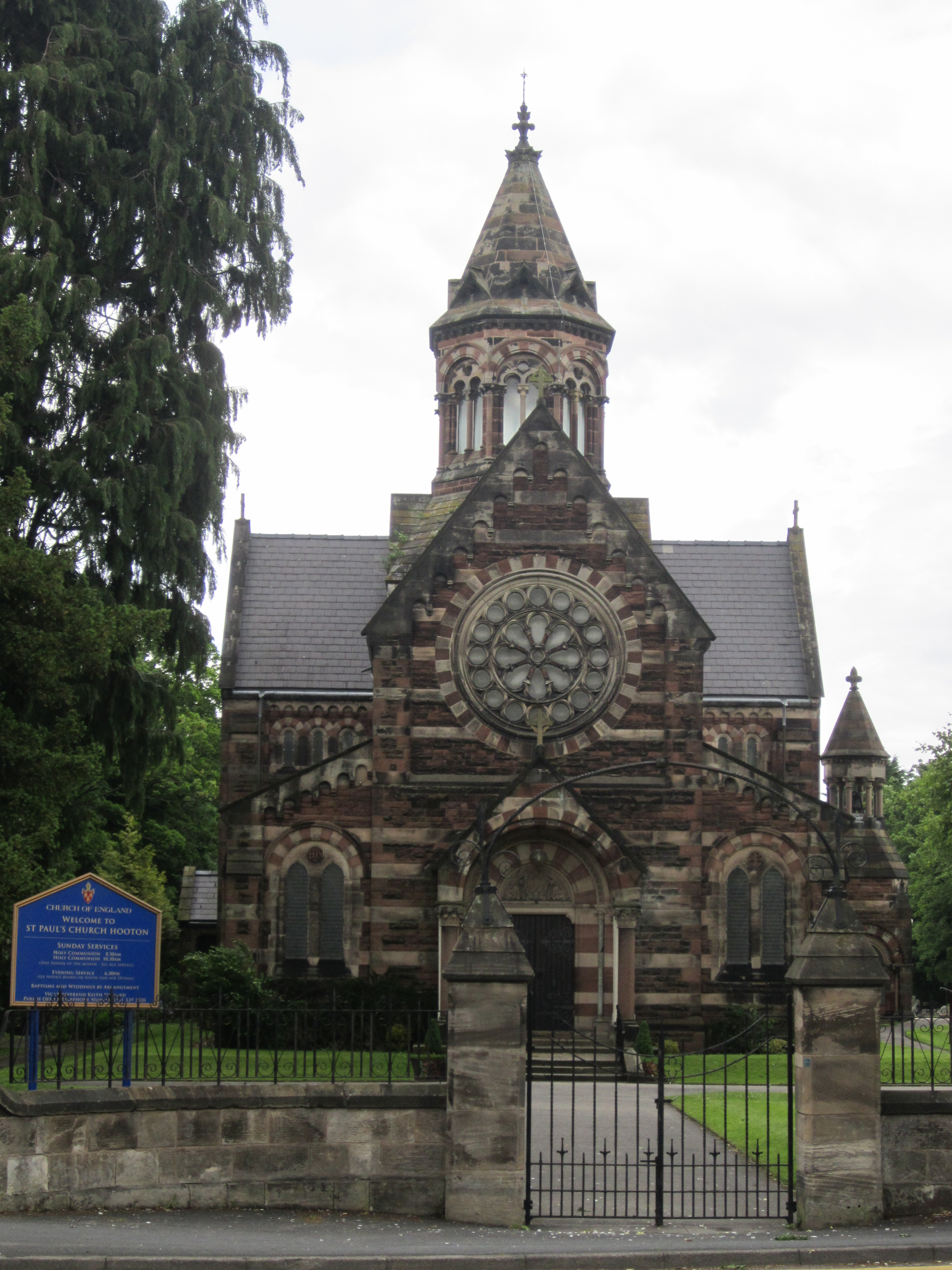 St Paul's parish church, Hooton, Wirral, Cheshire, England, seen from the southwest